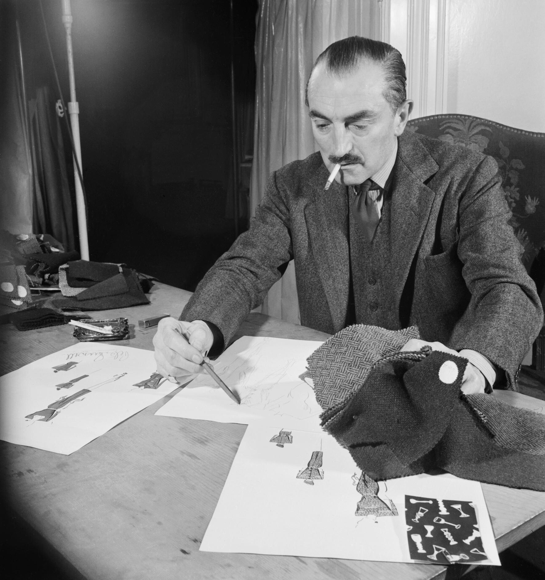 London Fashion Designers- the work of Members of the Incorporated Society of London Fashion Designers in Wartime, London, England, UK, 1944 Fashion designer Peter Russell smokes as he sketches a new design in his London office. He has several pieces of fabric with him and a number of earlier sketches are also visible on the desk. The original caption states that "he is working with British textile firms to produce his own exclusive prints".